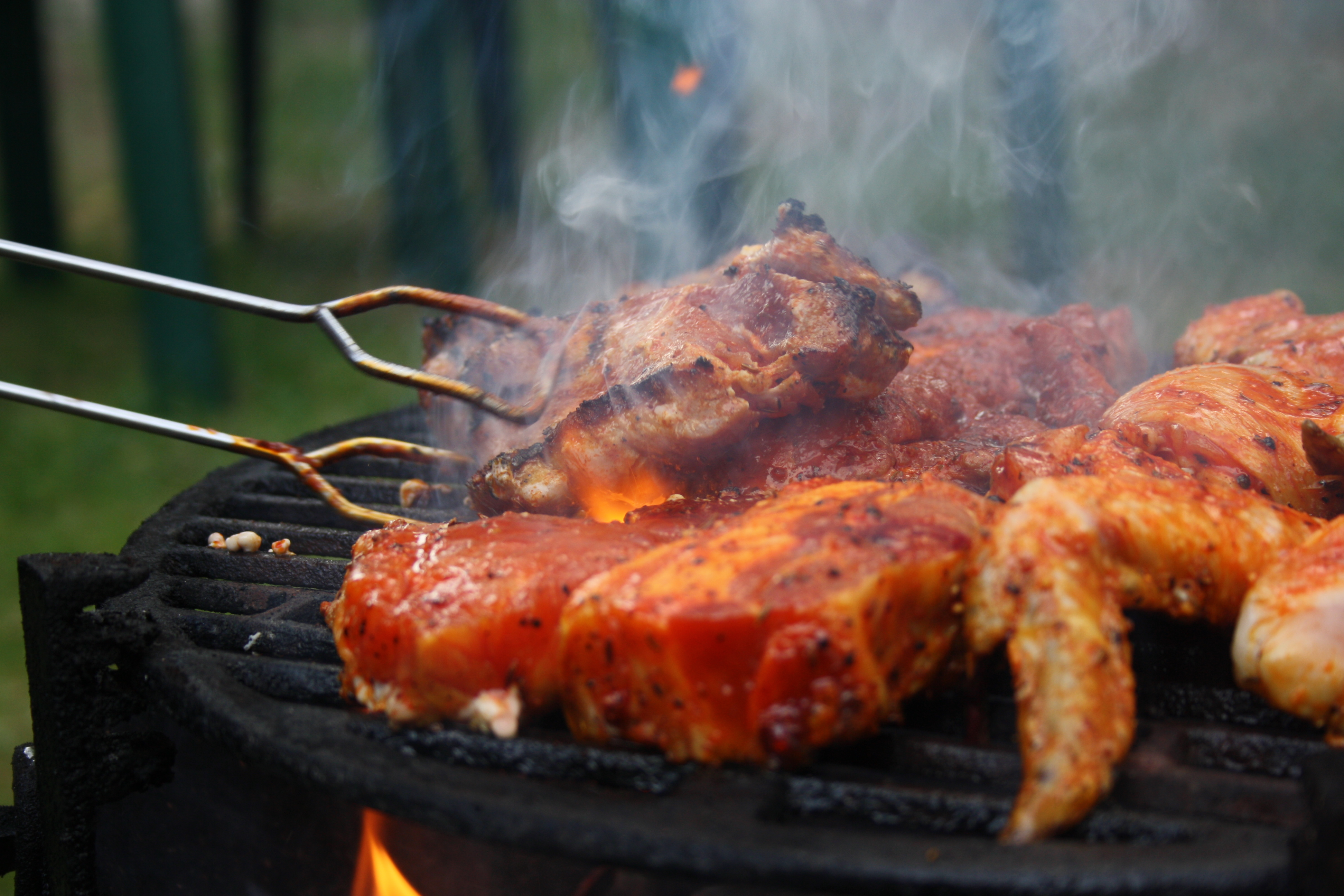 Grilled steaks turned by grill tongs in Czech Republic.